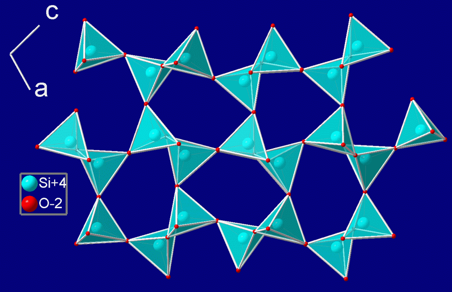 Crystal structure of tridymite